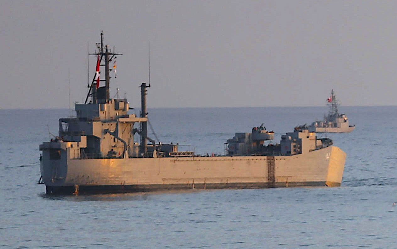 BAP Eten (DT-144) in 2015.